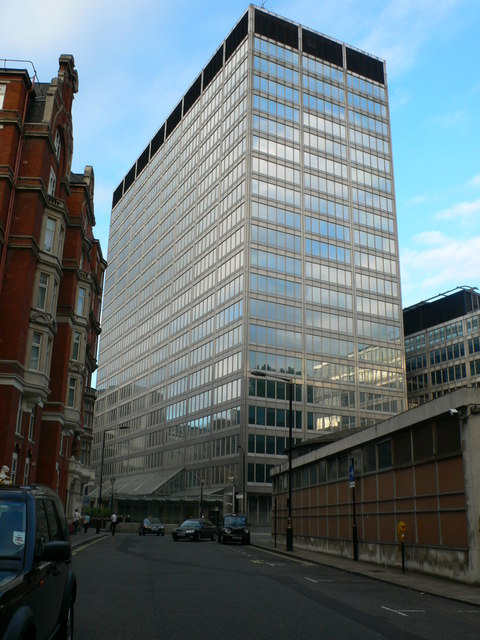 New Scotland Yard The headquarters of the Metropolitan Police. They moved to this 20 storey building in 1967 from their previous HQ on the Victoria Embankment.